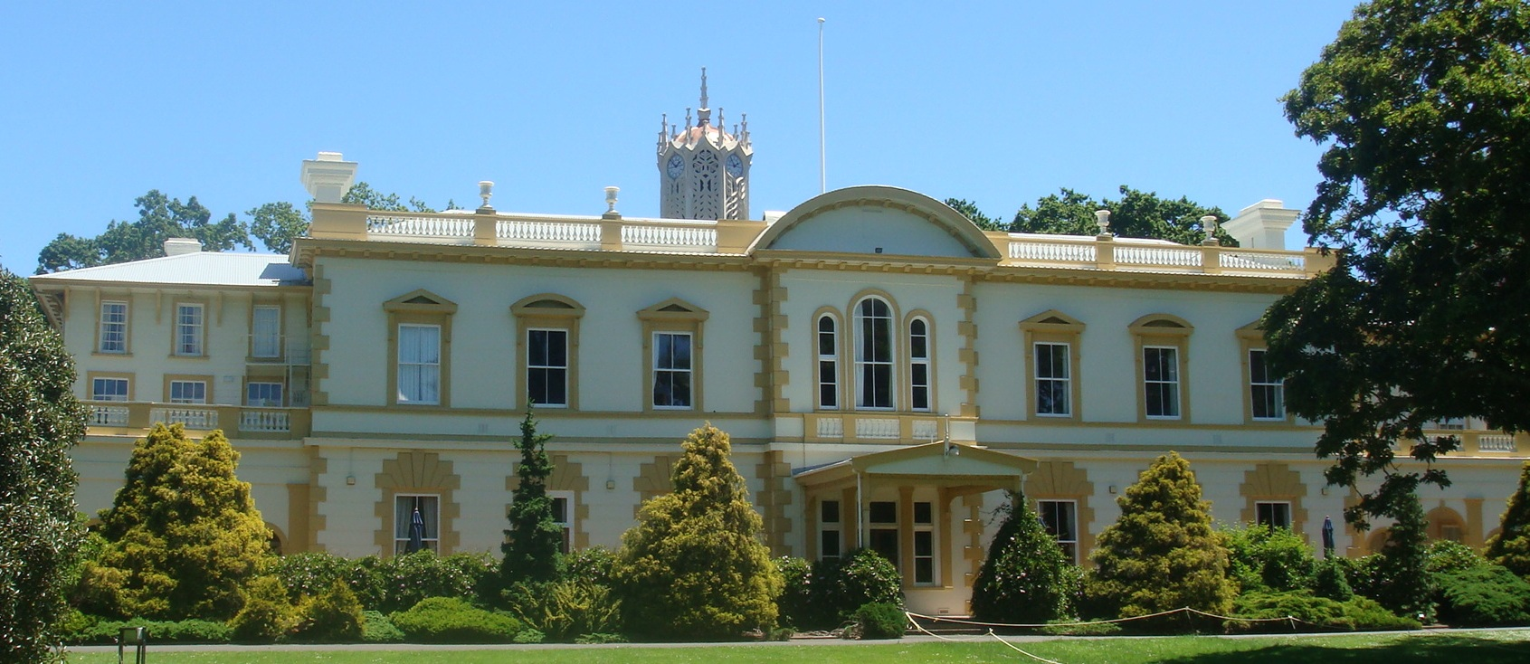 Old Government House at the University of Auckland's City Campus. Behind this white and yellow building you can see the top of the Clock Tower. New Zealand Historic Places Trust Register number: 105.